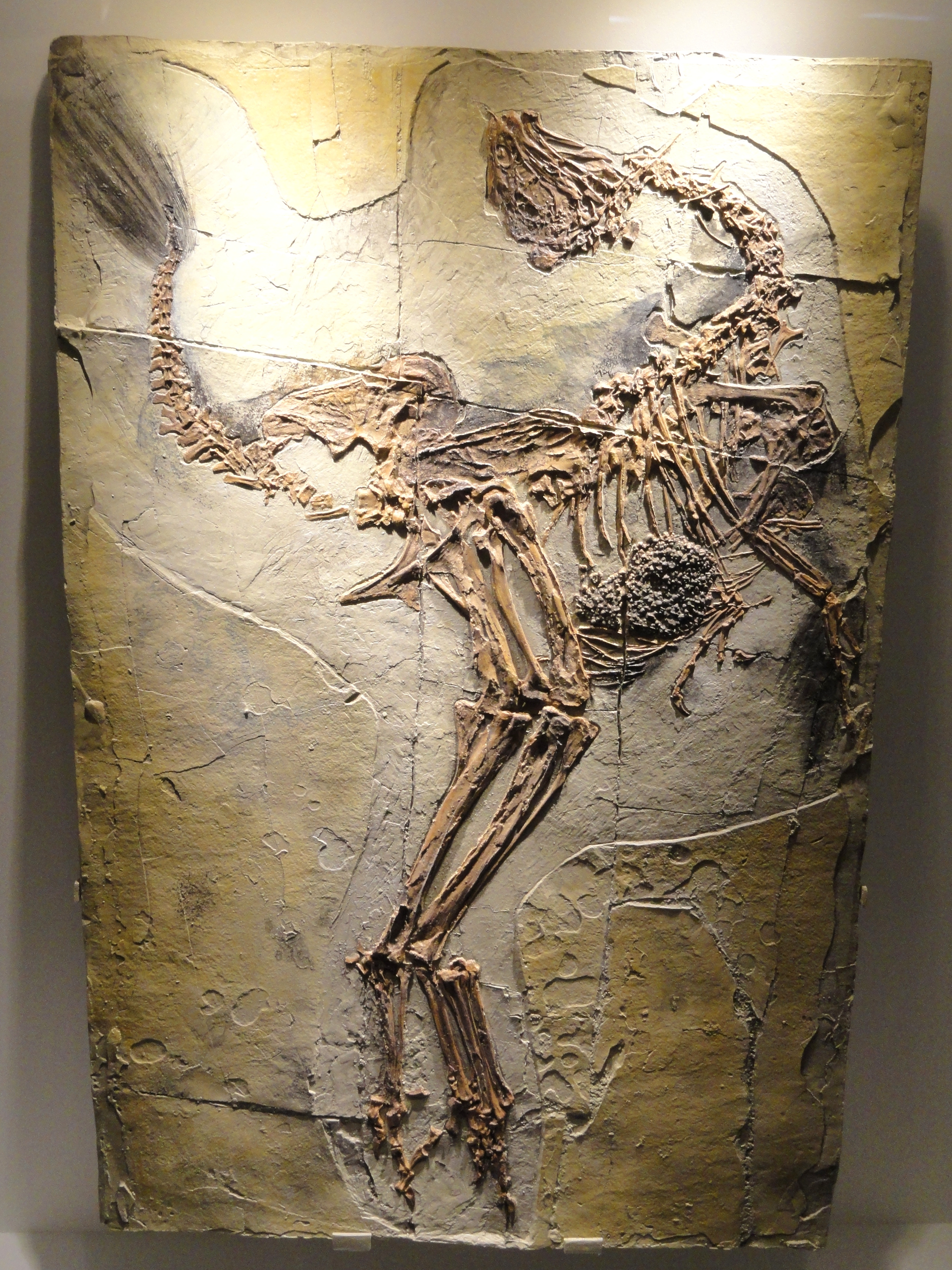 Exhibit in the Houston Museum of Natural Science, Houston, Texas, USA.